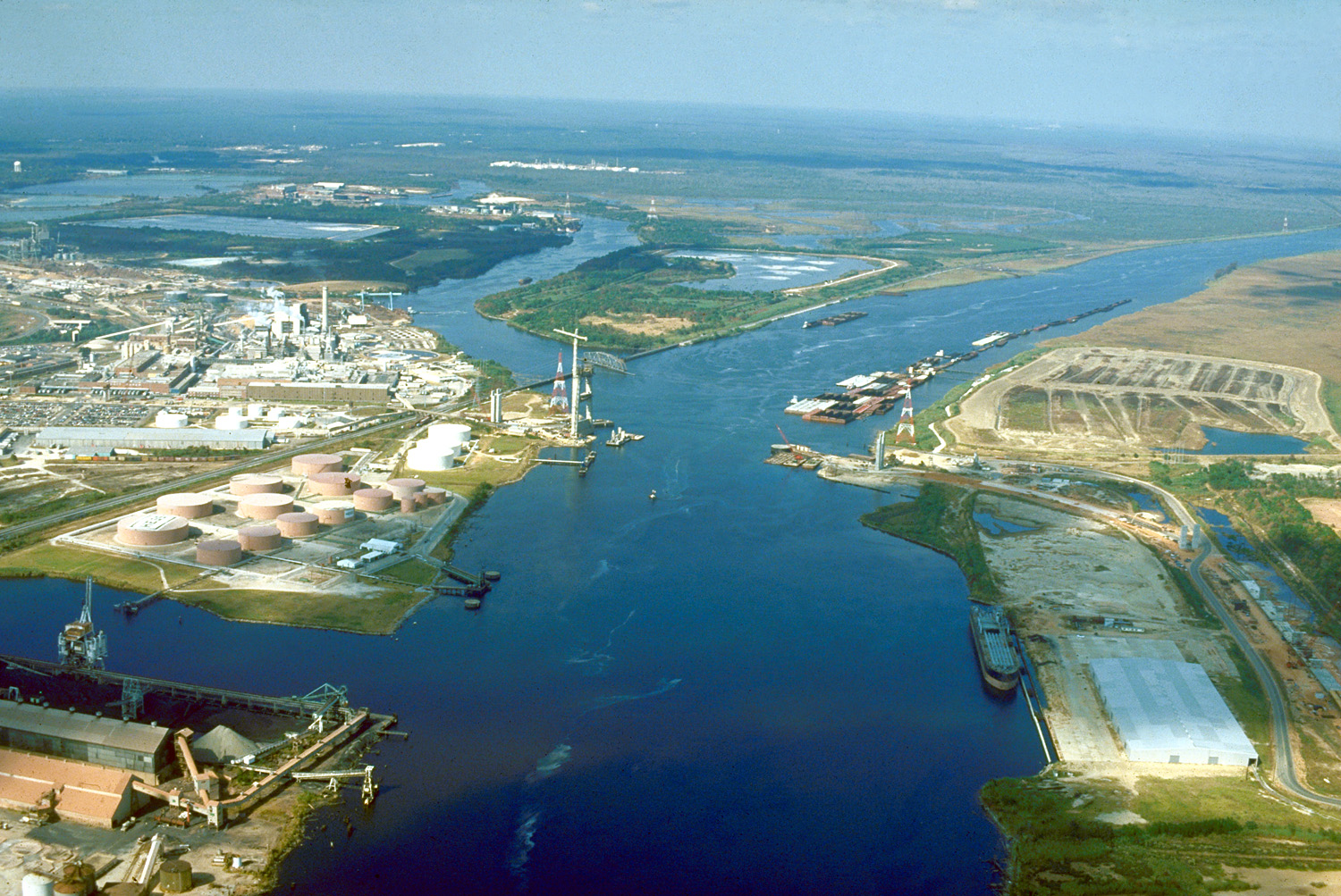 Aerial view of the Mobile River at its confluence with Chickasaw Creek, about 5 miles (8 km) above the river's mouth in Mobile Bay at Mobile, Alabama. The city of Chickasaw, Alabama, is visible at the upper-left corner of the photograph. The Cochrane–Africatown bridge, carrying U.S. Route 90, was under construction at the time this photograph was taken. The piers that support the bridge can be seen standing on either side of the river and a tall construction crane is visible. The bridge was opened in 1991.